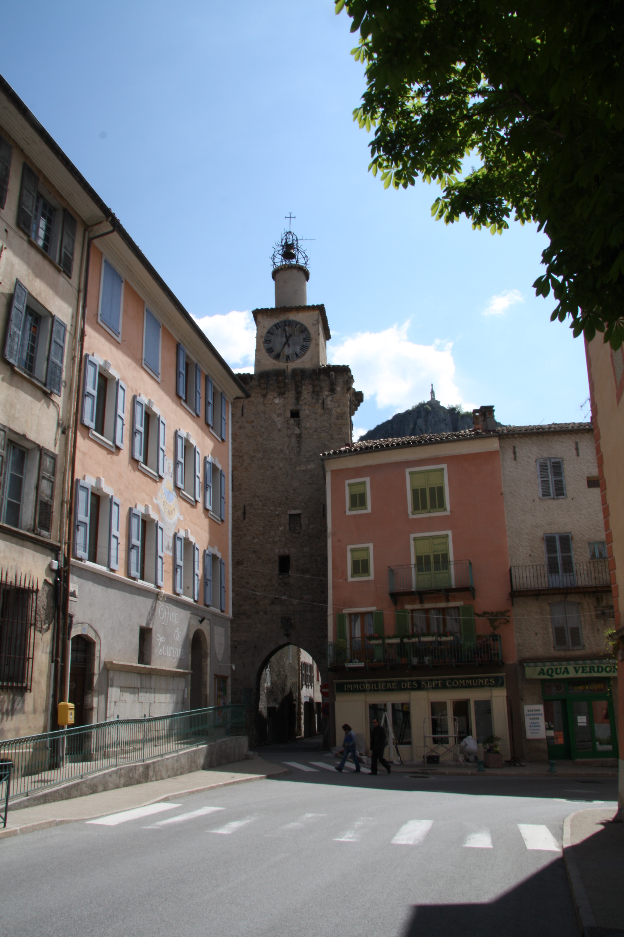 Castellane